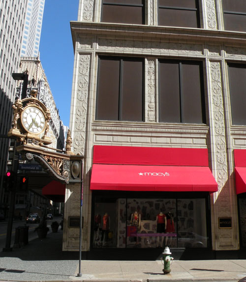 Picture of Kaufmann's Department Store and Clock (Macy's) at Fifth Avenue and Smithfield Street in downtown Pittsburgh, Pennsylvania, on April 10, 2010. This part of the store (including the clock) was designed by Janssen & Abbott in 1913. Another former Kaufmann's building (seen here) is structurally connected to the building in the above picture, and it was built in 1898 and designed by Charles Bickel. Both buildings and the clock are included together on the List of Pittsburgh History and Landmarks Foundation Historic Landmarks.